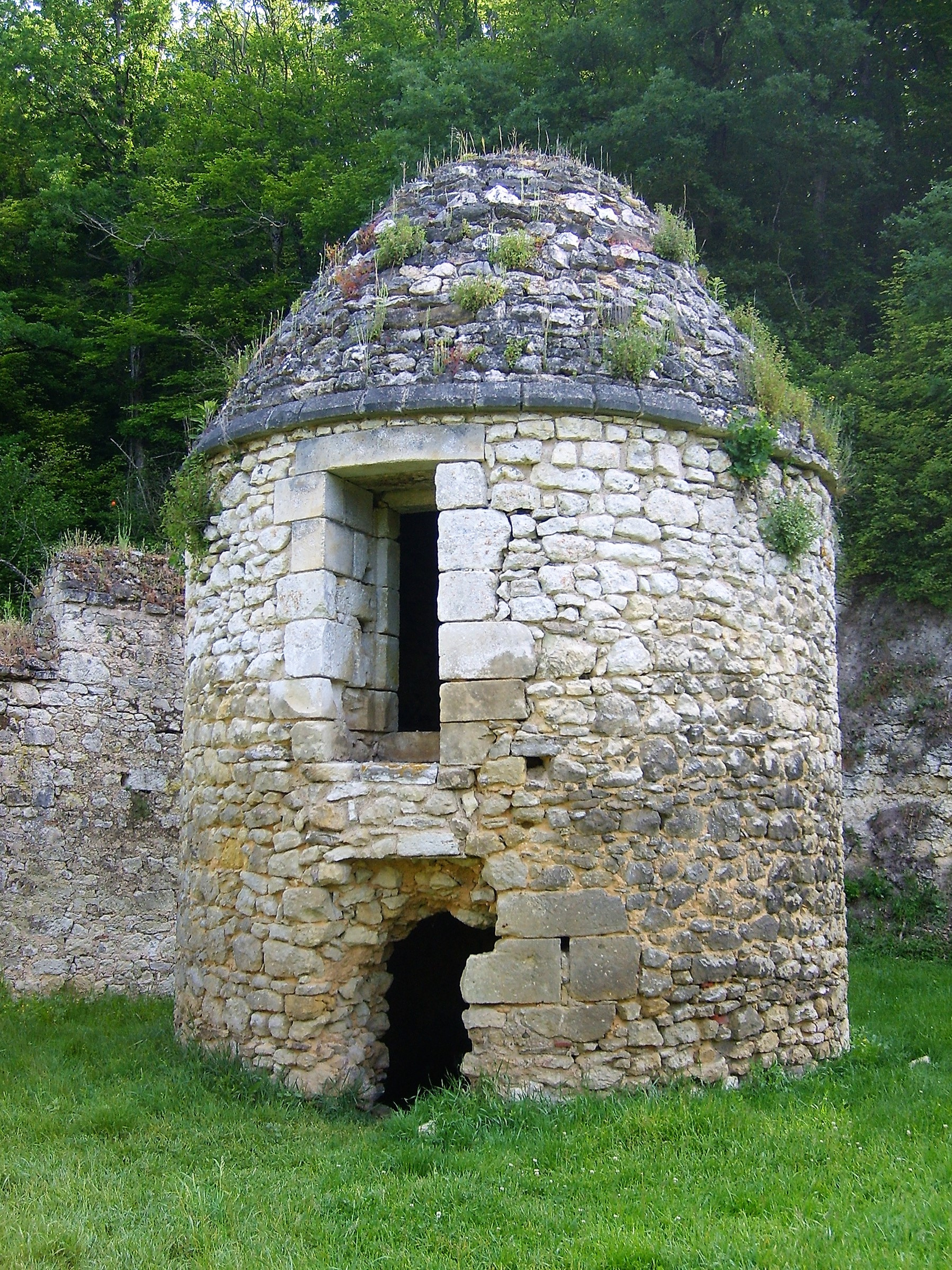 Hemp oven / jail. Publish by= User:Stephane8888 Self made